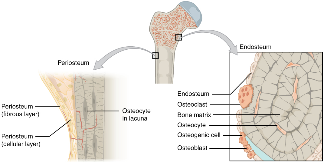 Illustration from Anatomy & Physiology, Connexions Web site. Jun 19, 2013.